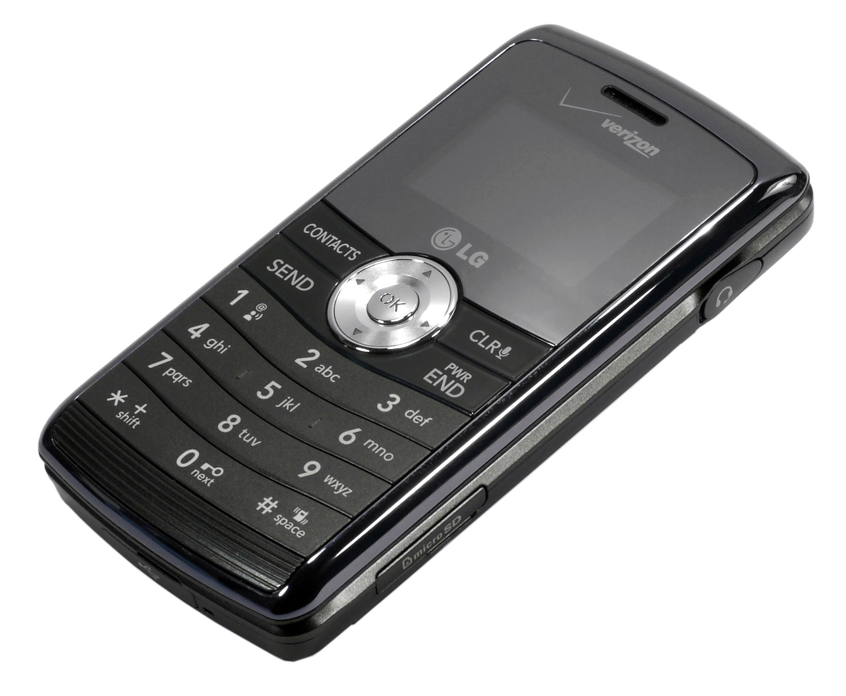 The LG ENV3 phone, or VX9200 for Verizon Wireless.